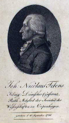 Johan Nicolai Tetens (1736-1807). Philosopher, economist, mathematician from Holstein.